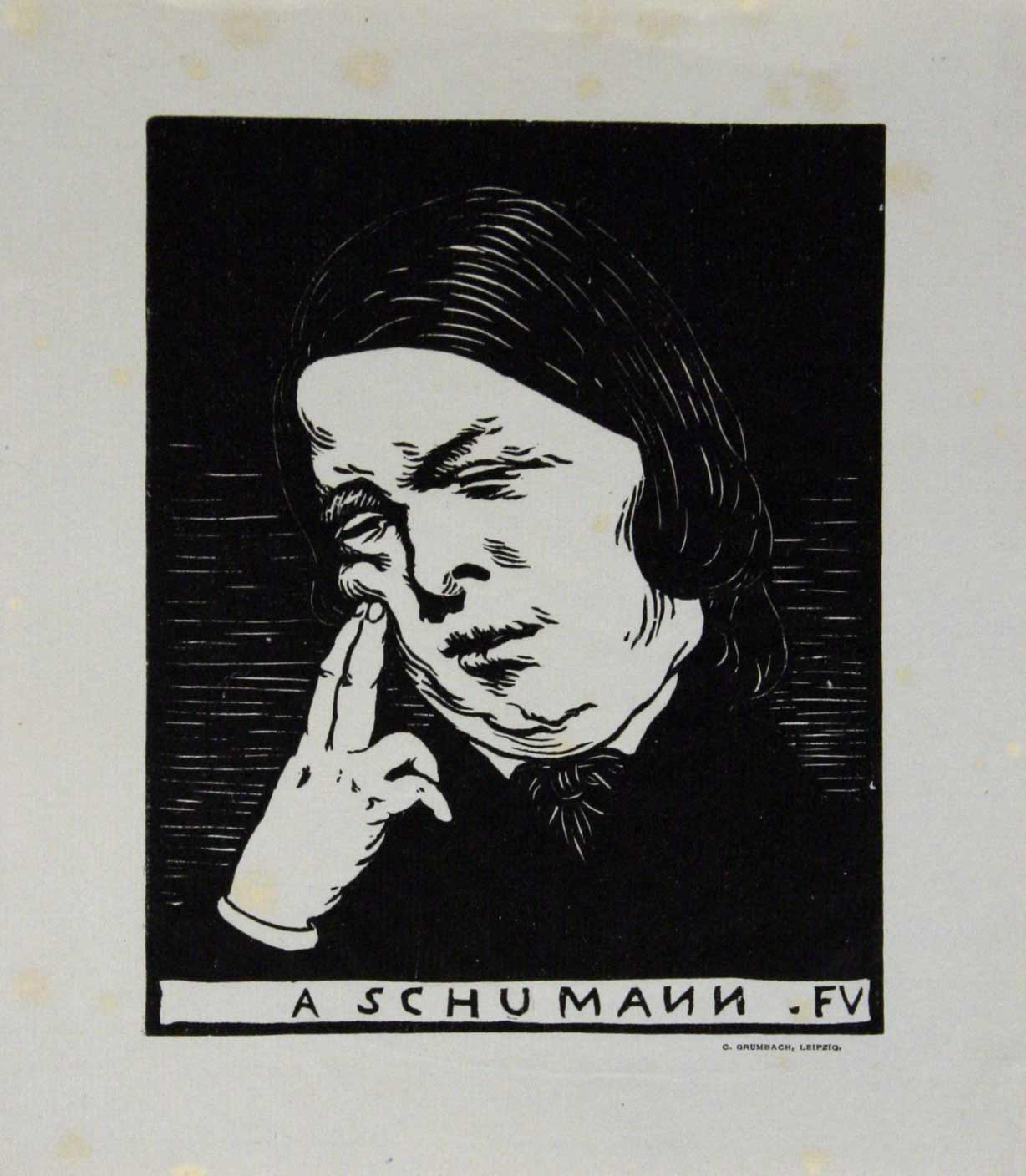 woodcut on paper